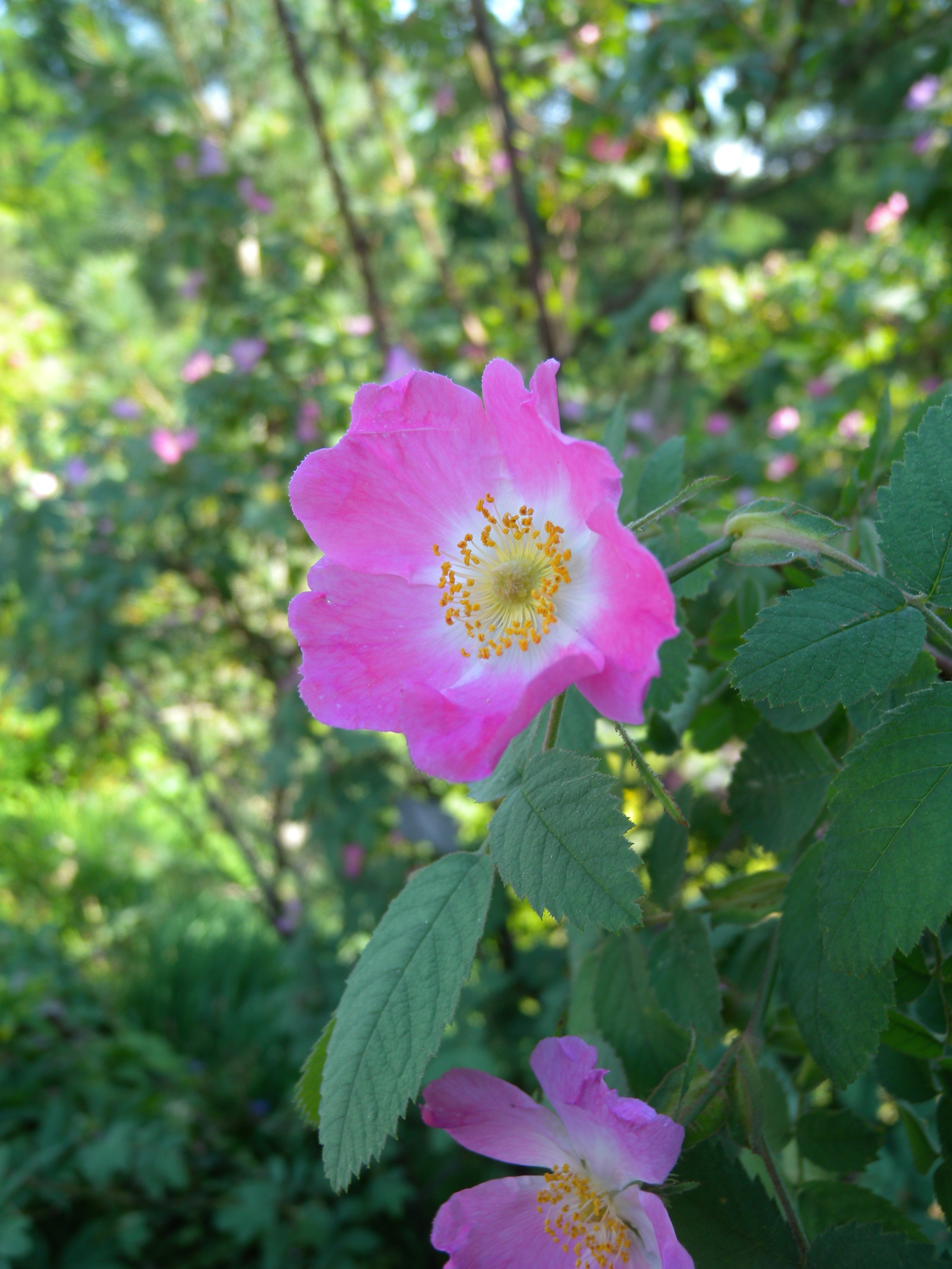 Rosa villosa (Rosaceae), Botanical Garden Bern, Switzerland